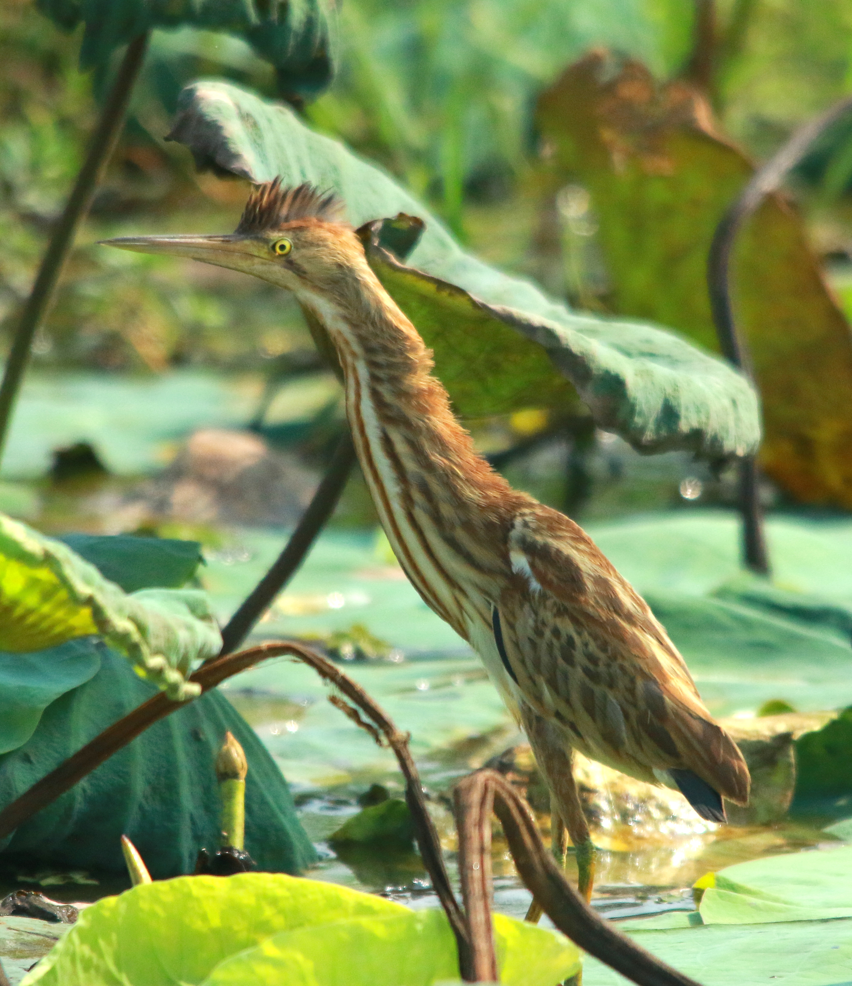 Yellow bittern bird